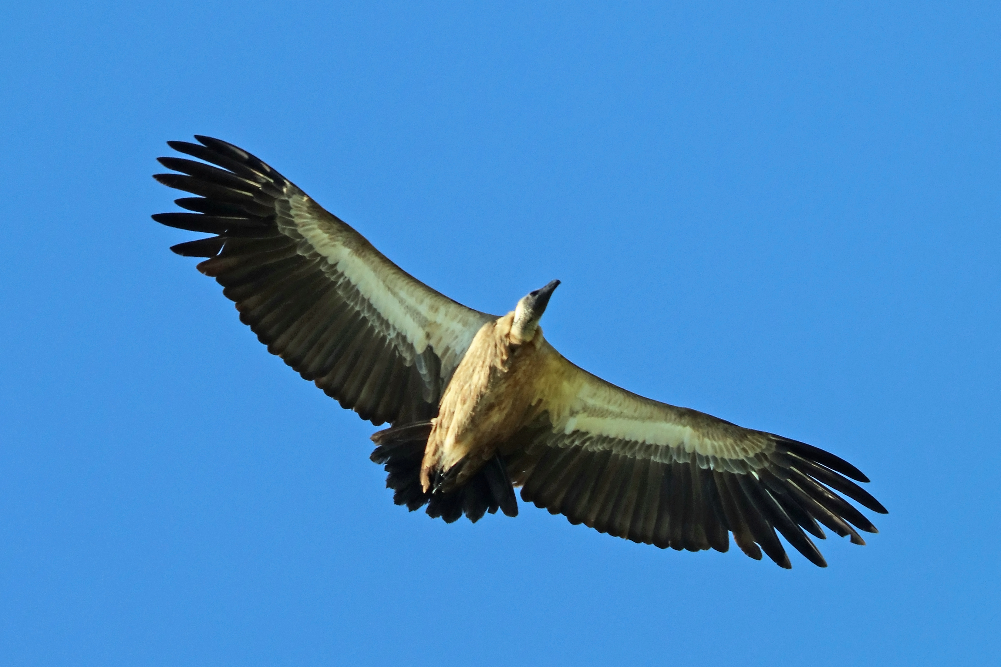 White-backed vulture (Gyps africanus) sub adult in flight, Matetsi Safari Area, Zimbabwe